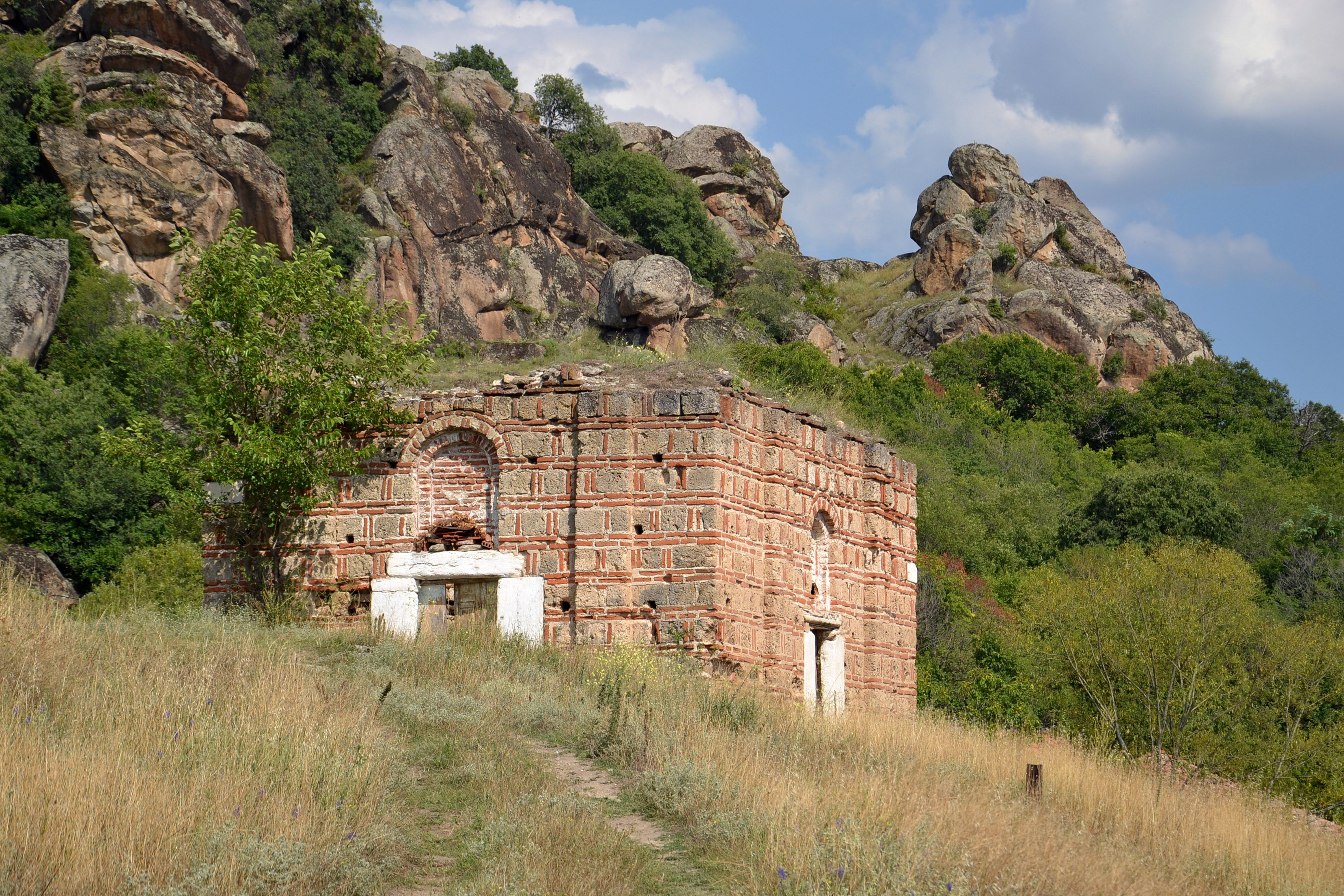 St. Athanasius Church, Prilep, Macedonia